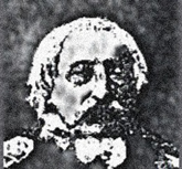 José María Pinedo was a naval commander in the Navy of the United Provinces of the River Plate one of the precursor states of what is now known as Argentina. Portrait from later in life, some correction and cropping to eliminate problems from original scan of a poor quality image.